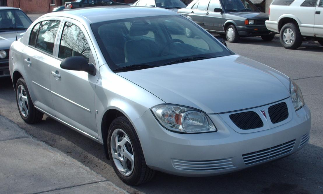 2007 Pontiac G5 sedan photographed in Montreal, Quebec, Canada.